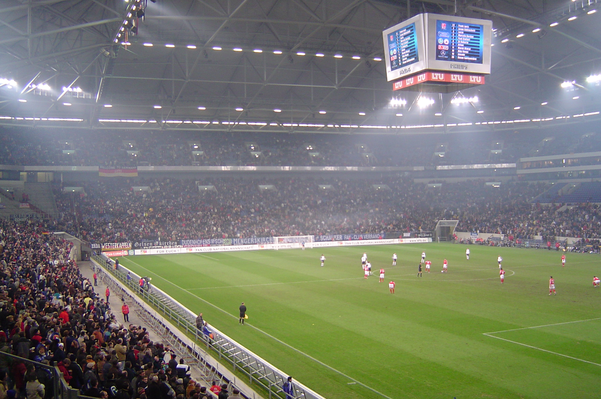 Veltins-Arena football stadium Gelsenkirchen, Germany. Originally named Arena AufSchalke.